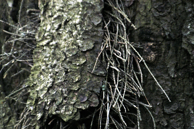 Nest of Certhia familiaris (bird not visible) from Commanster, Belgian High Ardennes .